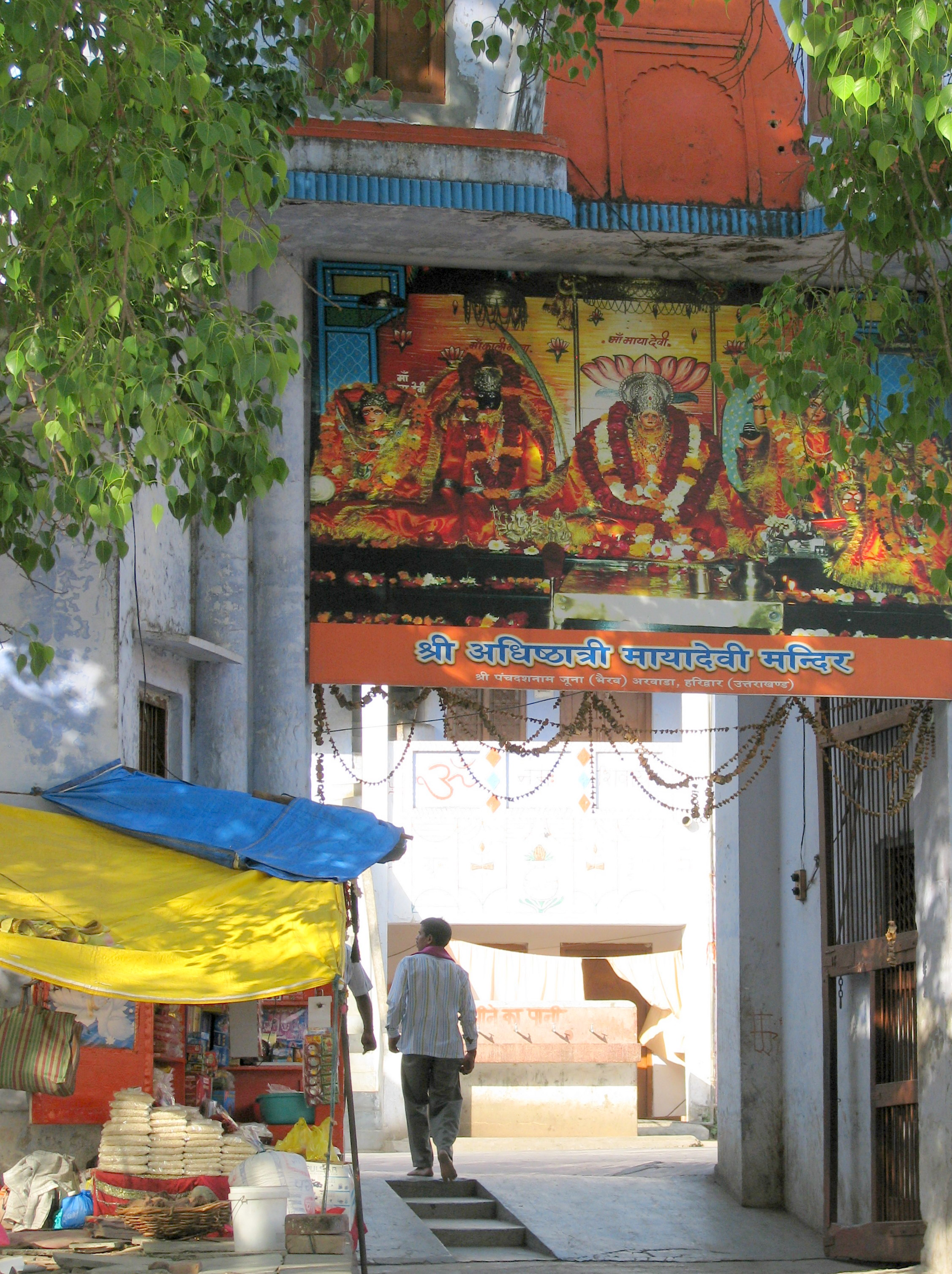 Entrance to Mayadevi temple, Haridwar.